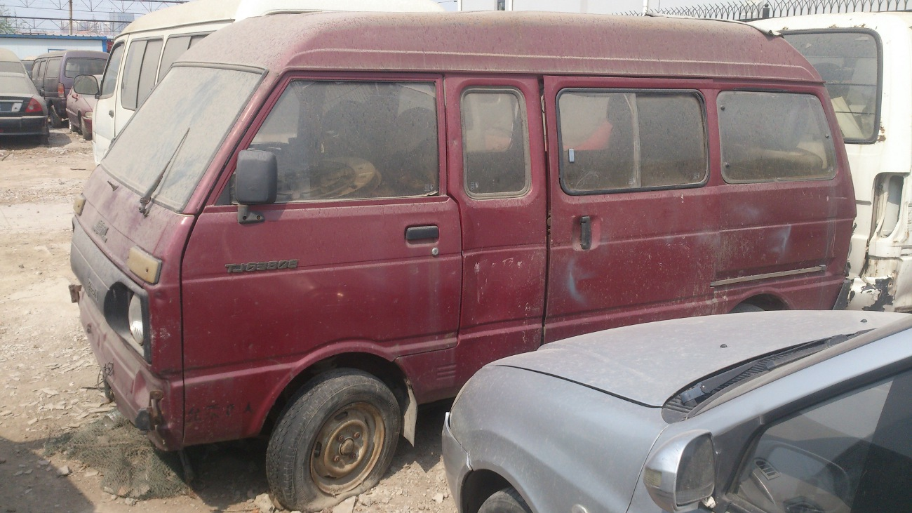 Tianjin Huali Dafa TJ6350B photographed in Tianjin, China.